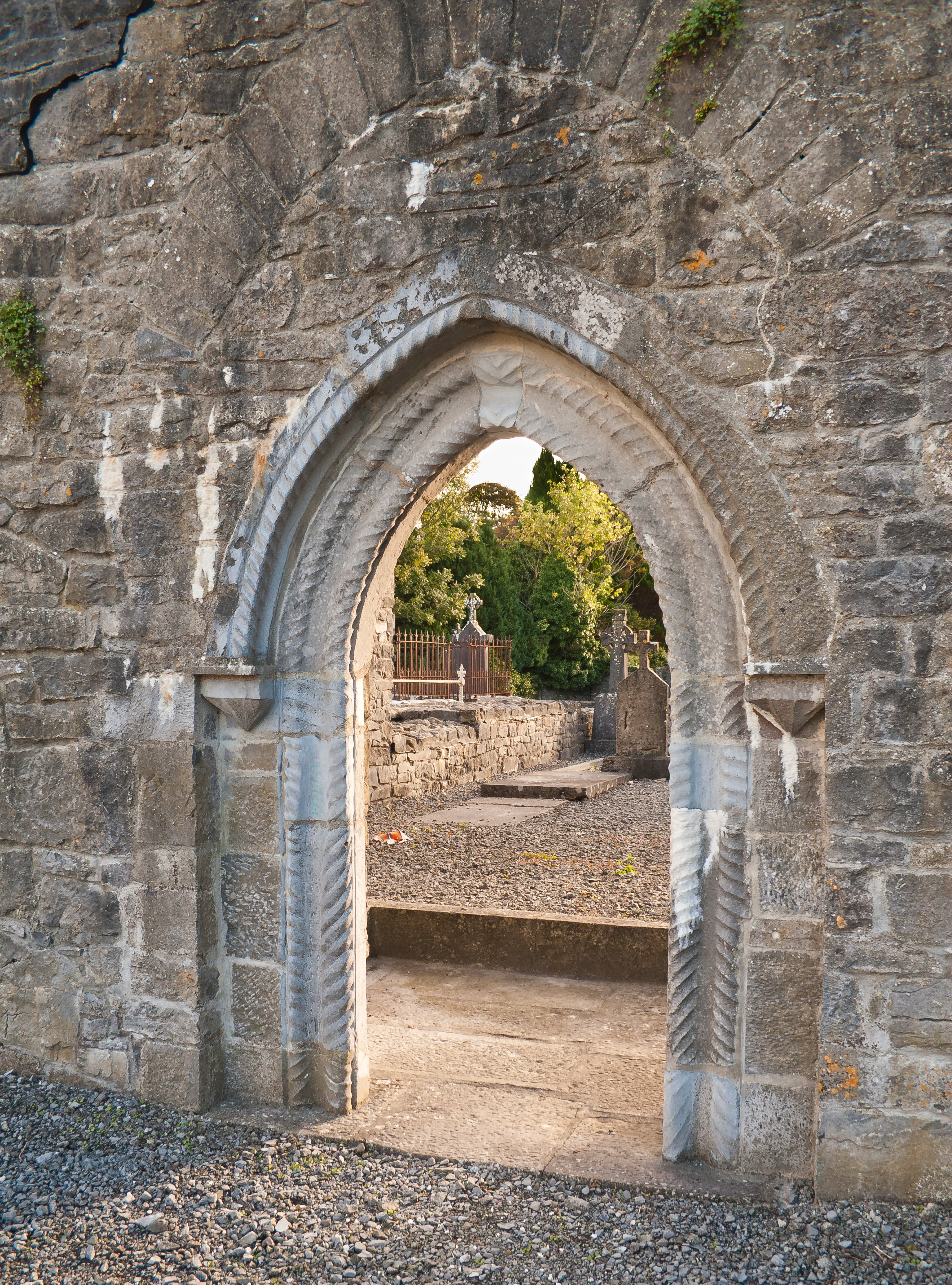 Recently restored doorway at the west gable of the nave.